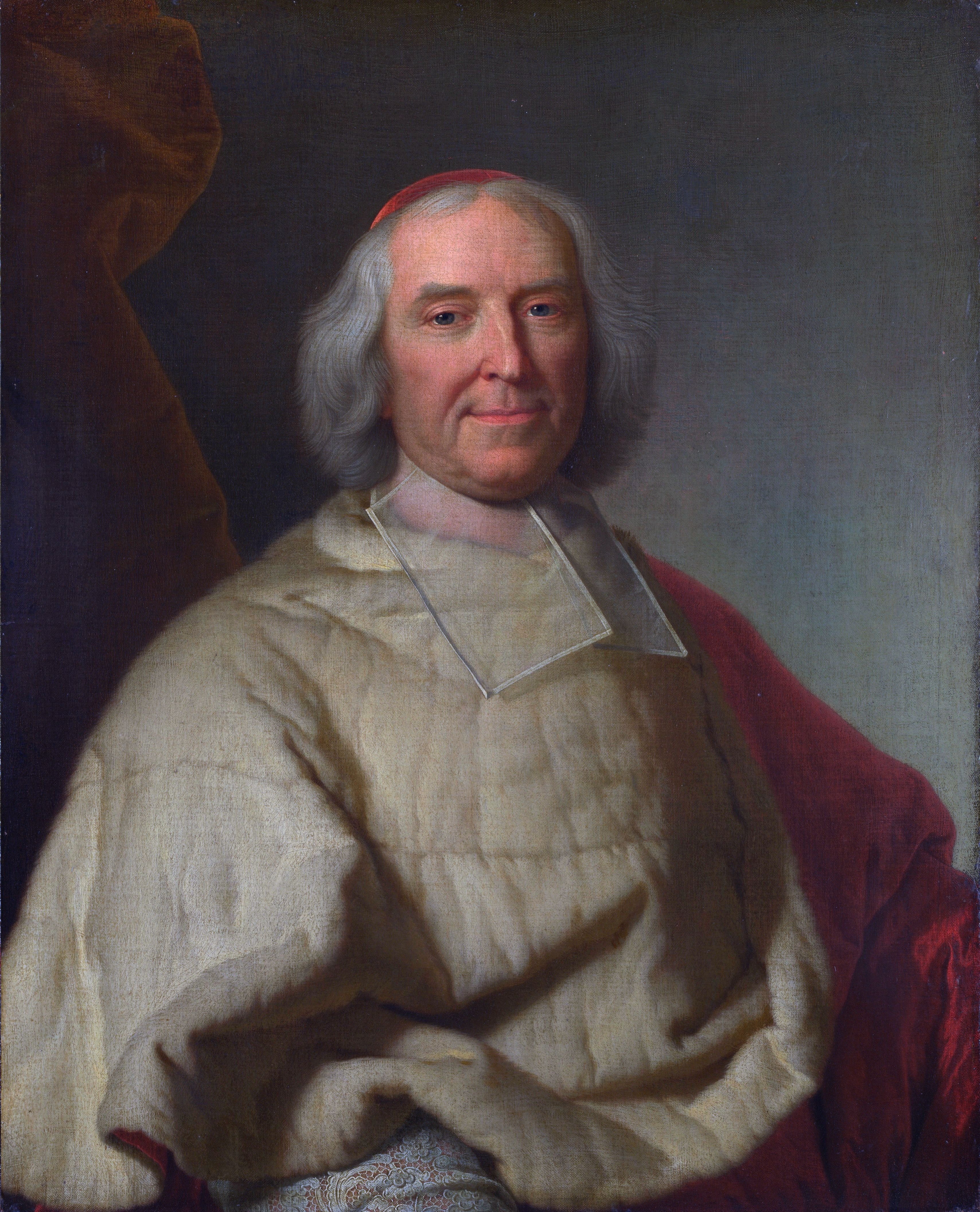 Portrait of André-Hercule de Fleury (1653-1743) This painting is probably a copy of an original by Rigaud. Many copies were made in his workshop.